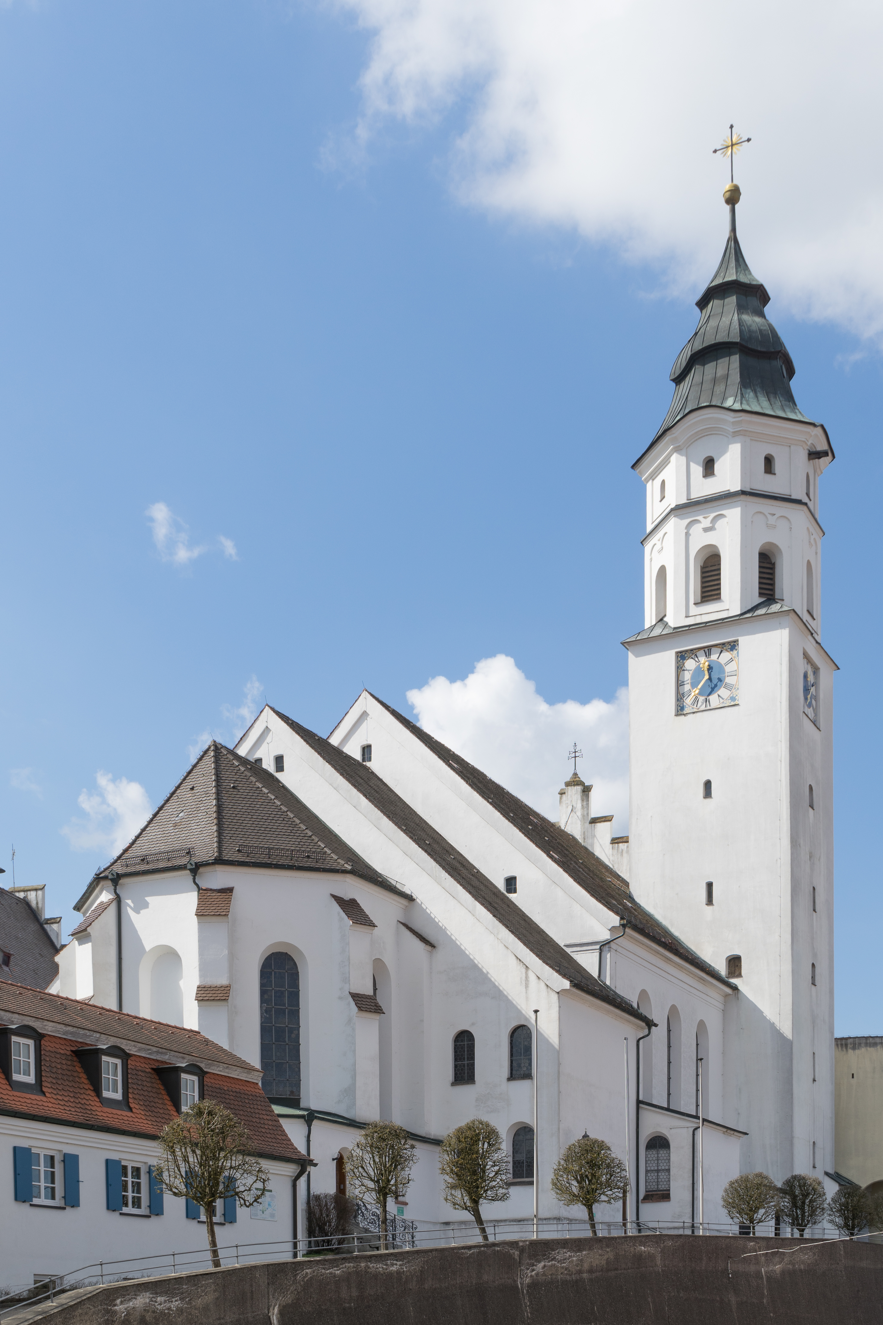 Church of St. Andrew in Germany, Babenhausen (Swabia)